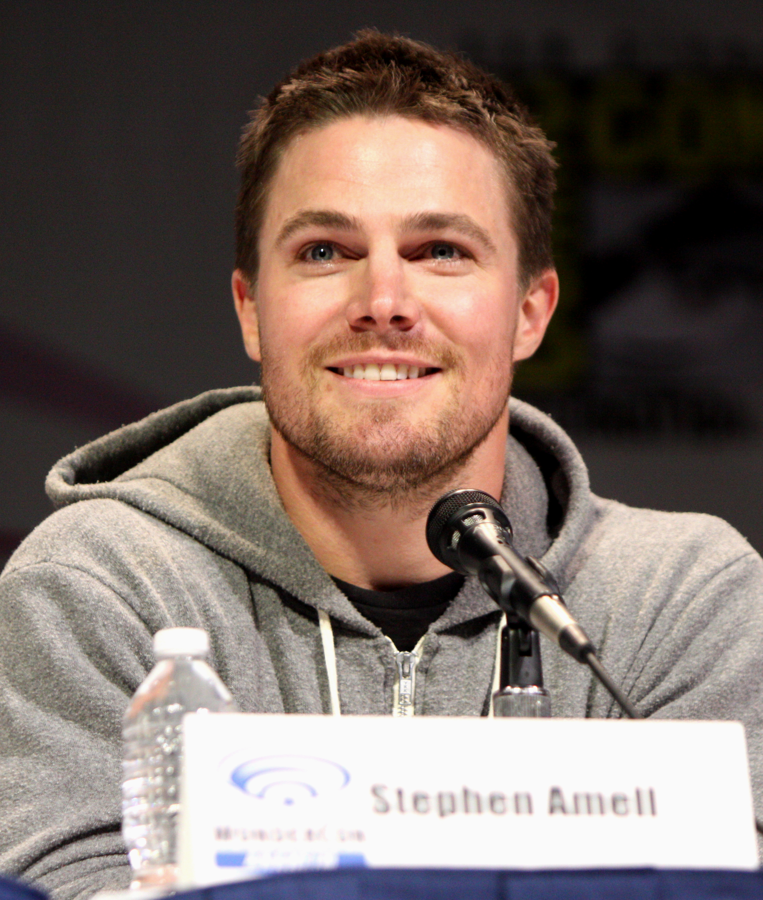 Stephen Amell speaking at the 2013 WonderCon in Anaheim, California on March 31, 2013.